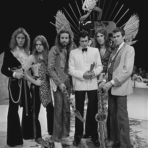 Roxy Music in AVRO's TopPop (Dutch television show) in 1973